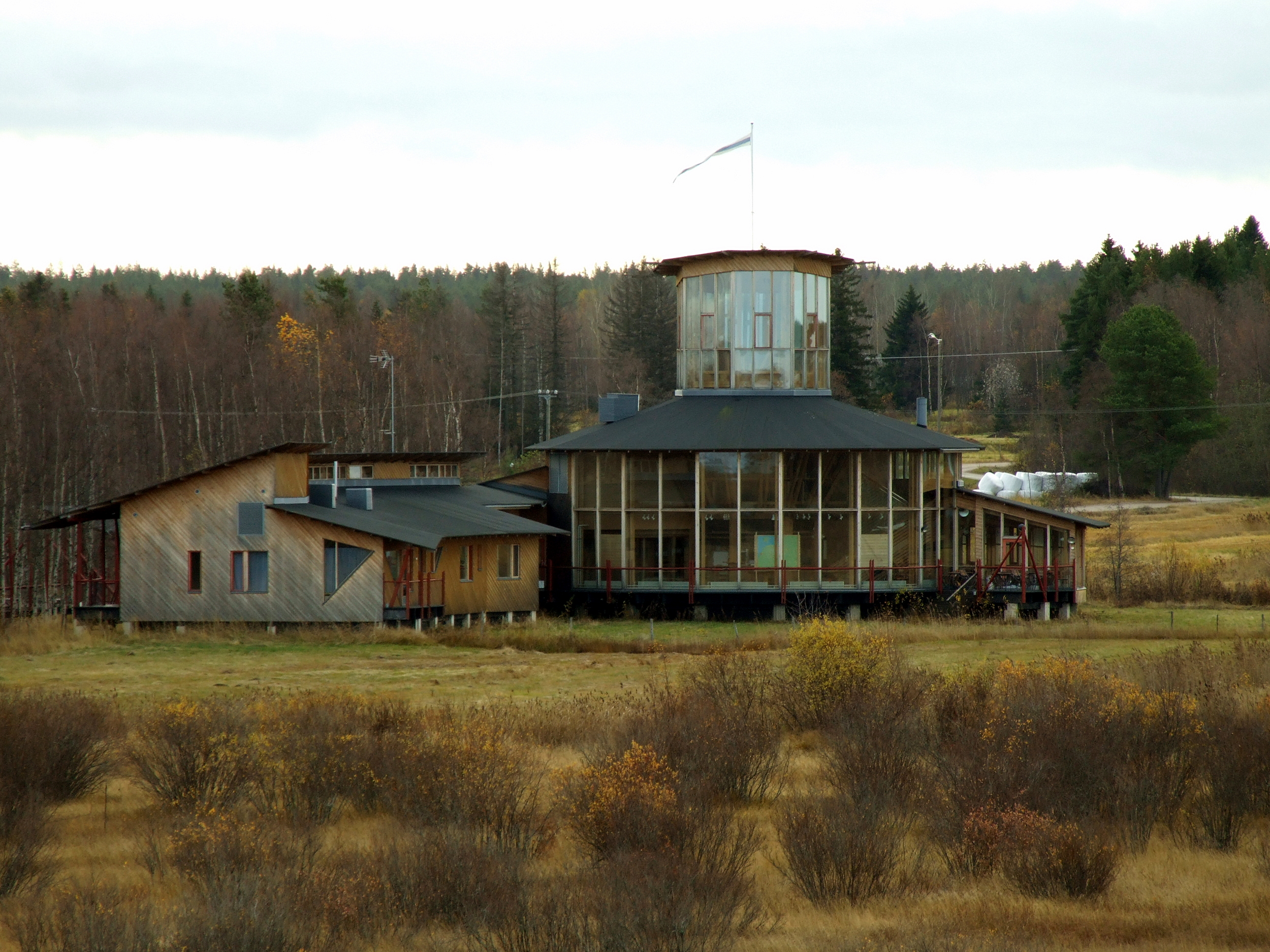 Liminganlahti Visitor Centre at Liminganlahti wetland area. The building was completed in 1998.